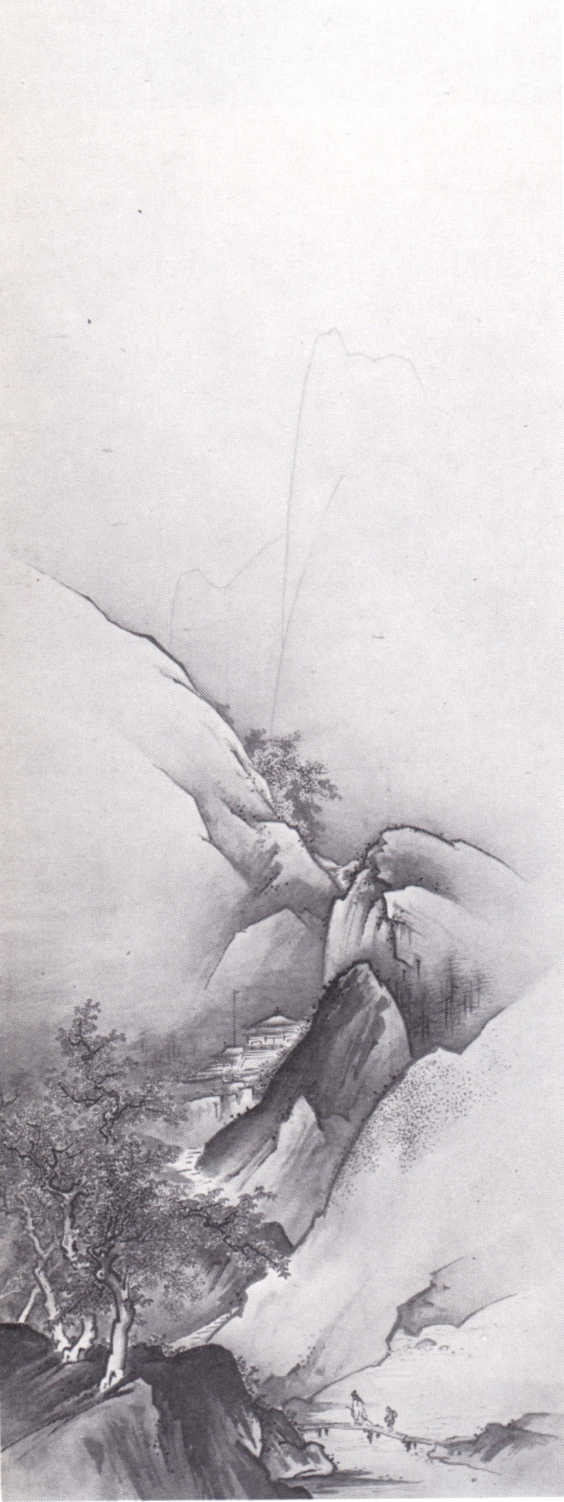 Landscape